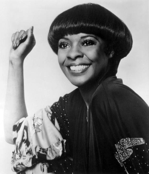 Publicity photo of singer Thelma Houston.